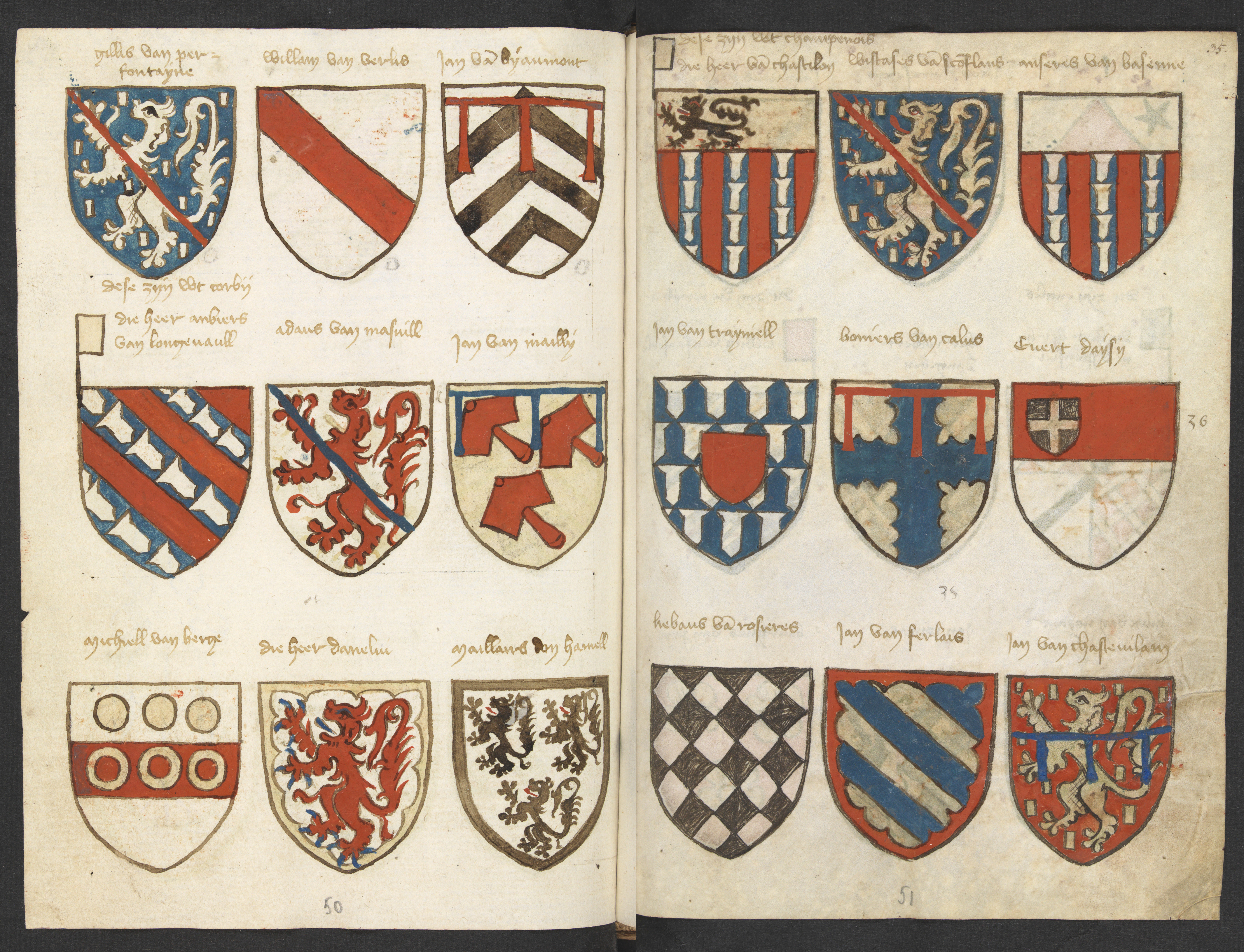 Lefthand side folio 034v; righthand side folio 035r from the Beyeren armorial / Wapenboek Beyeren